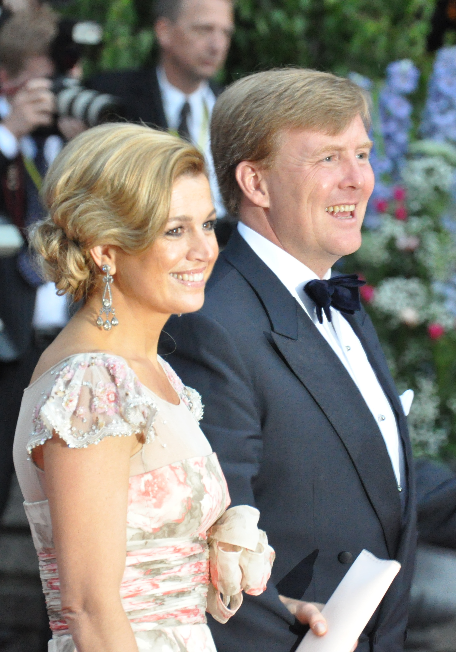 Wedding of Victoria, Crown Princess of Sweden, and Daniel Westling; Arrival of members for the Gouvernment and Swedish and foreign guests of hounour to the Riksdag's Gala Performance at Konserthuset: Willem-Alexander, Prince of Orange with Princess Máxima of the Netherlands